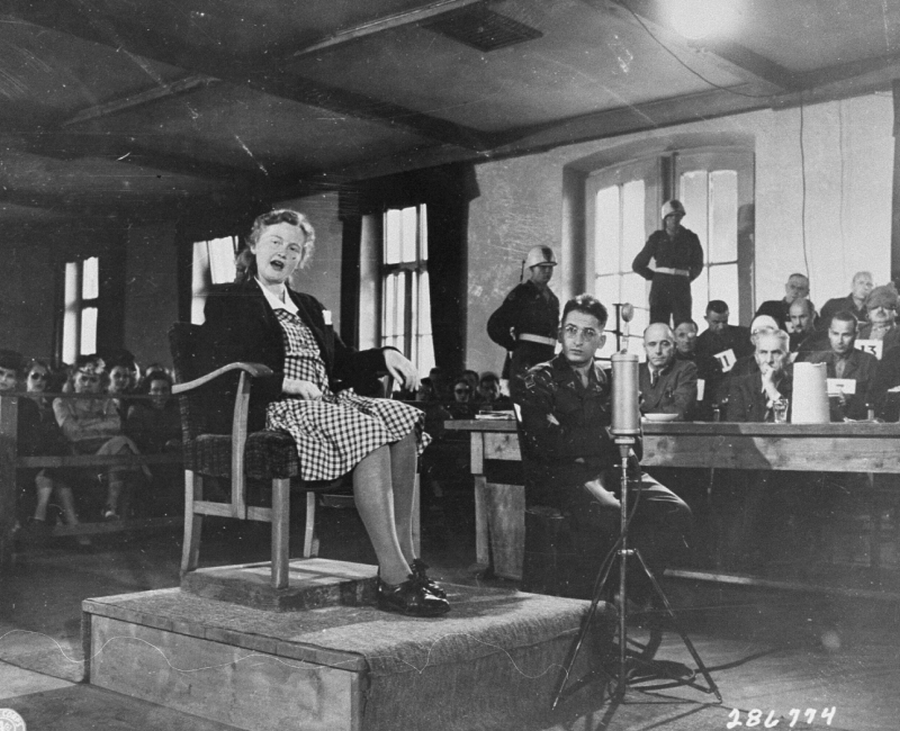 Ilse Koch testifies in her own defense at the trial of former camp personnel and prisoners from Buchenwald.